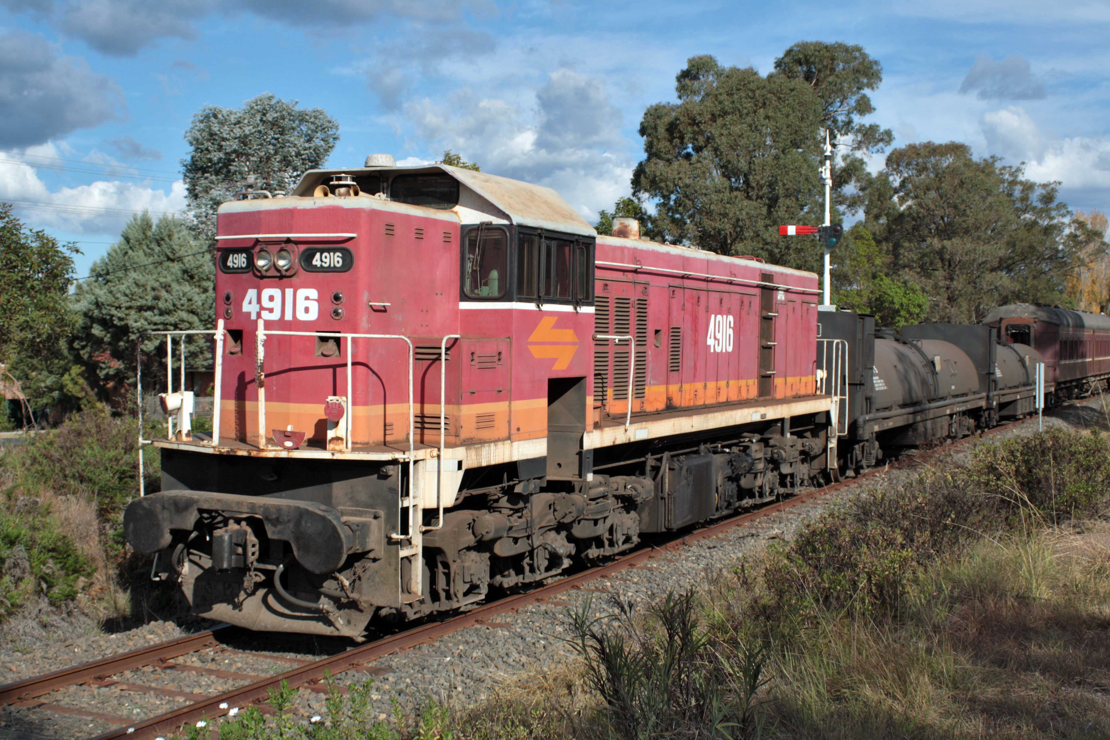 Diesel locomotive 4916 parked on the Loop Line just north of Thirlmere Station with a rake of mixed rolling-stock from the Museum exhibits.